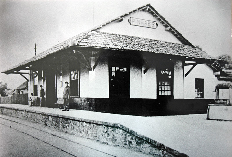 Station of train in Pinhais, sec.XIX - XX